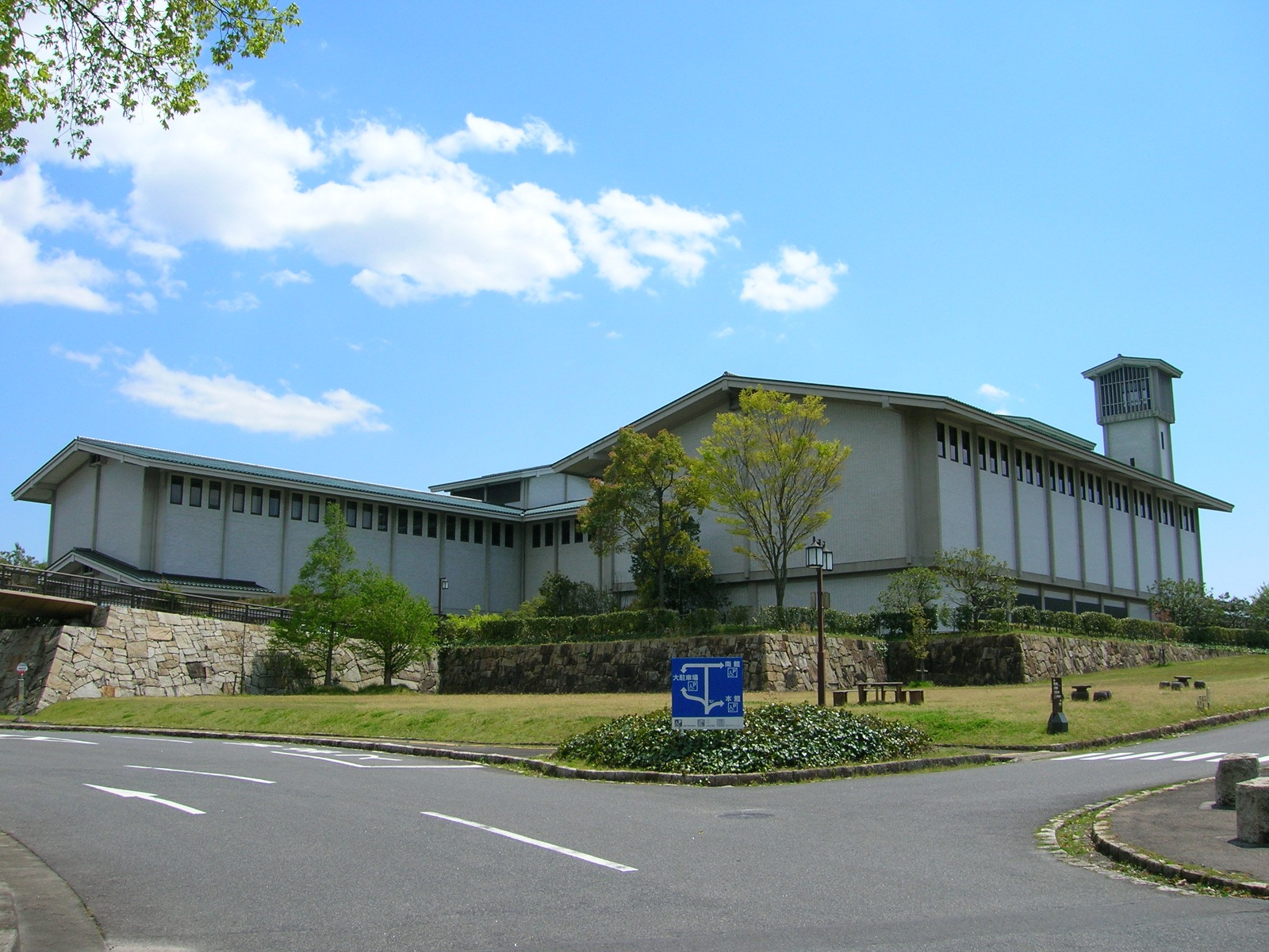 Aichi Prefectural Ceramic Museum, Main hall. Loc: Seto city, Aichi Prefecture, Japan. 愛知県陶磁資料館・本館 撮影場所 愛知県瀬戸市・愛知県陶磁資料館